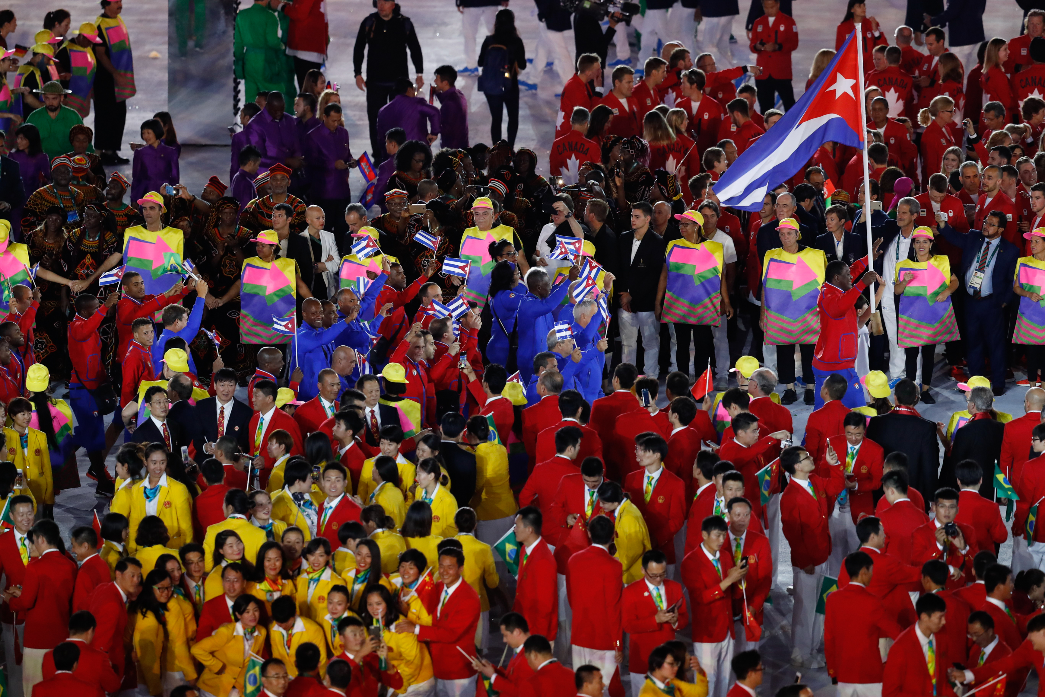 Rio de Janeiro - Cerimônia de abertura dos Jogos Olímpicos Rio 2016 no Estádio do Maracanã. (Fernando Frazão/Agência Brasil)